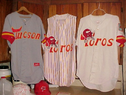 Tucson Toros uniforms from my personal collection. This is my original digital photo, and previously appeared on one of my blogs.